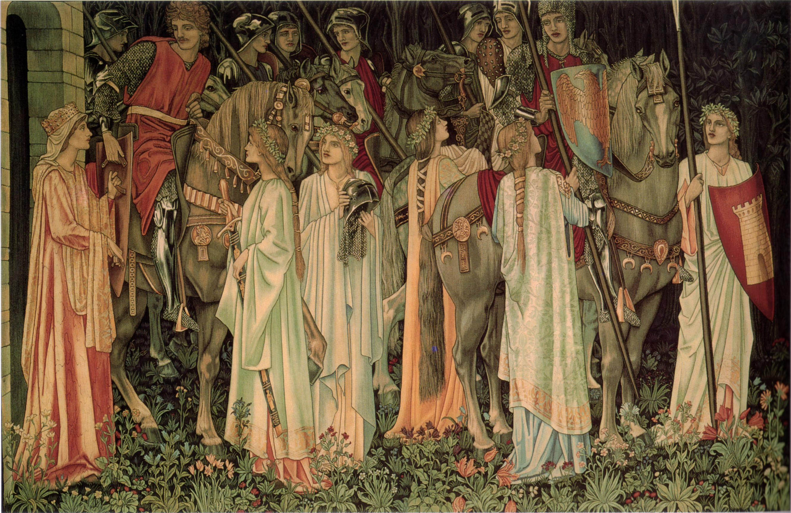 The Arming and Departure of the Knights. Number 2 of the Holy Grail tapestries woven by Morris & Co. 1891-94 for Stanmore Hall. This version woven by Morris & Co. for Lawrence Hodson of Compton Hall 1895-96. Wool and silk on cotton warp. Birmingham Museum and Art Gallery.